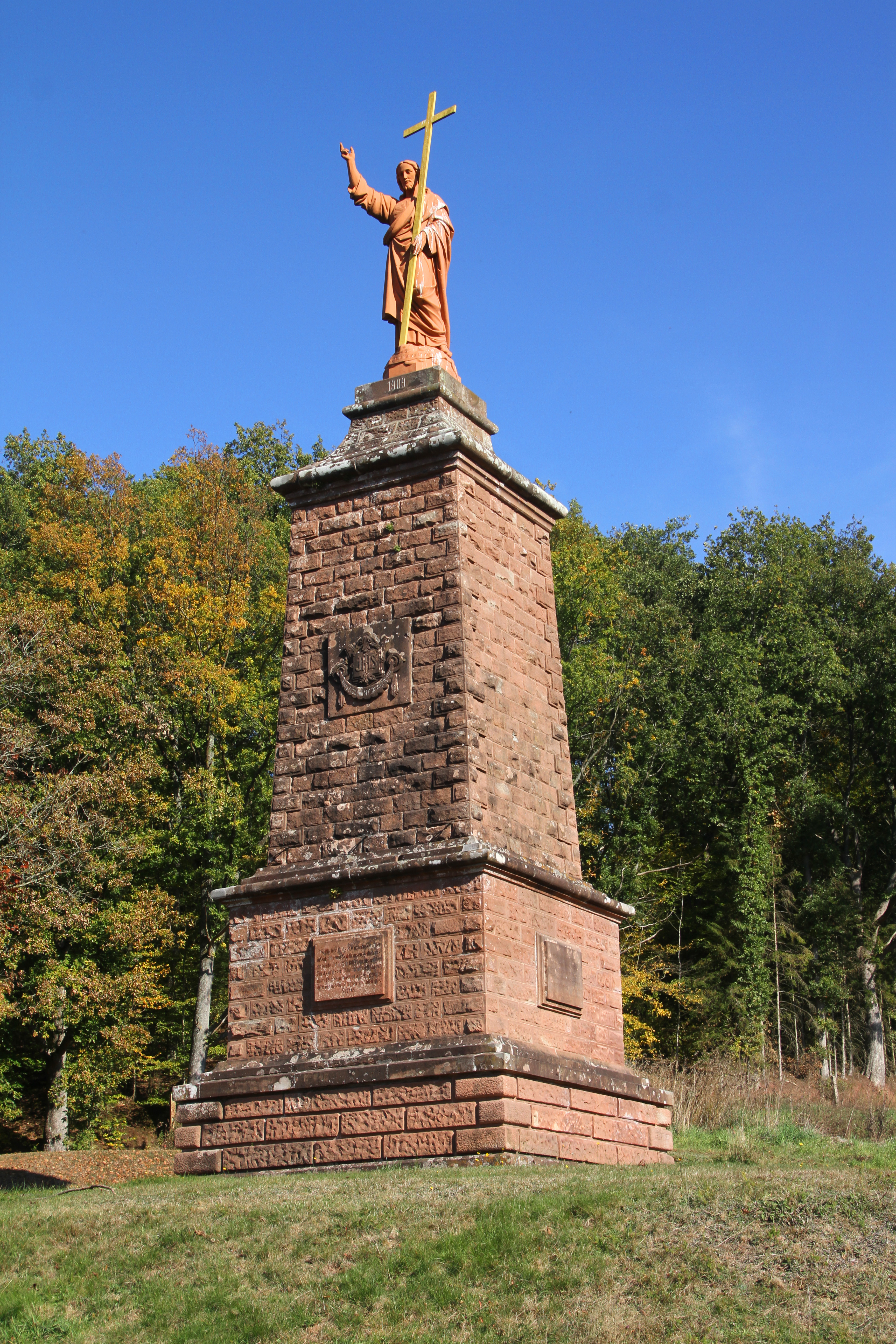 Castle of Walschbronn